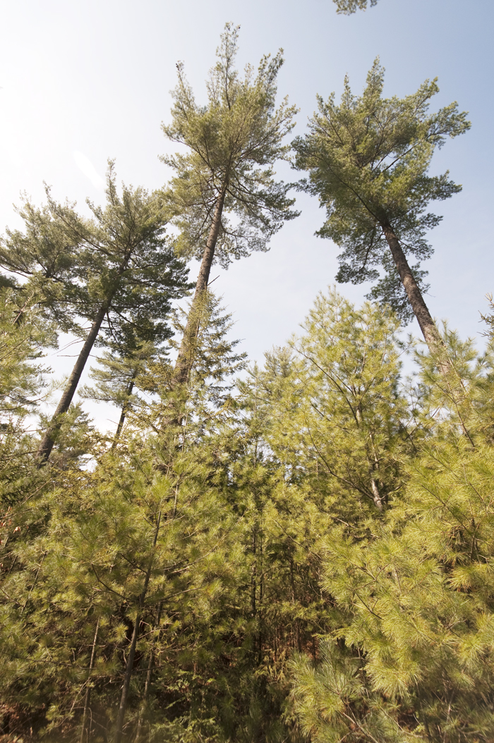 Partial overstory removal cutting in white pine at the University of Maine's Dwight B. Demeritt research and demonstration forest